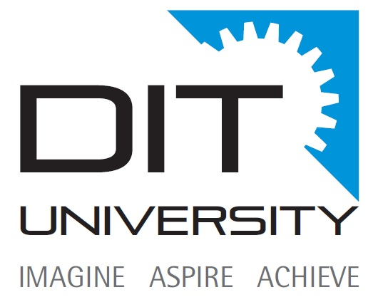 This the official logo of DIT University, Dehradun, India